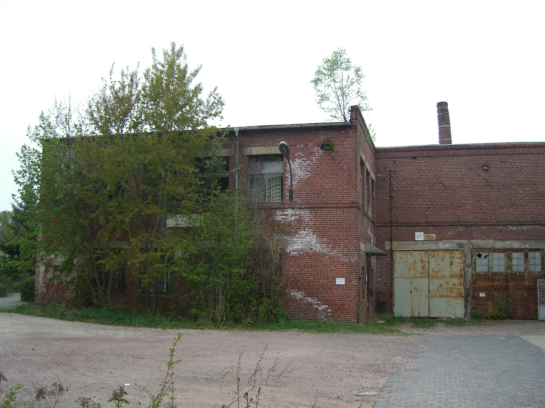 Former car factory of Friedrich Lutzmann in Dessau.